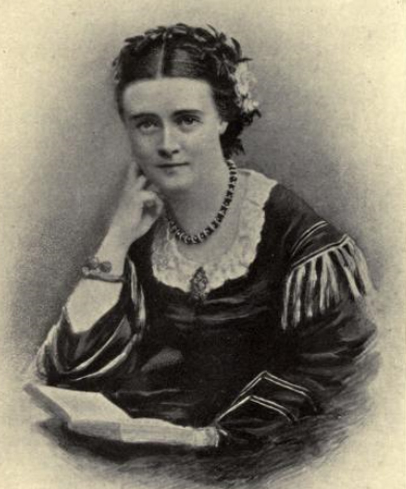 Henrietta Marchioness of Ripon, 1855